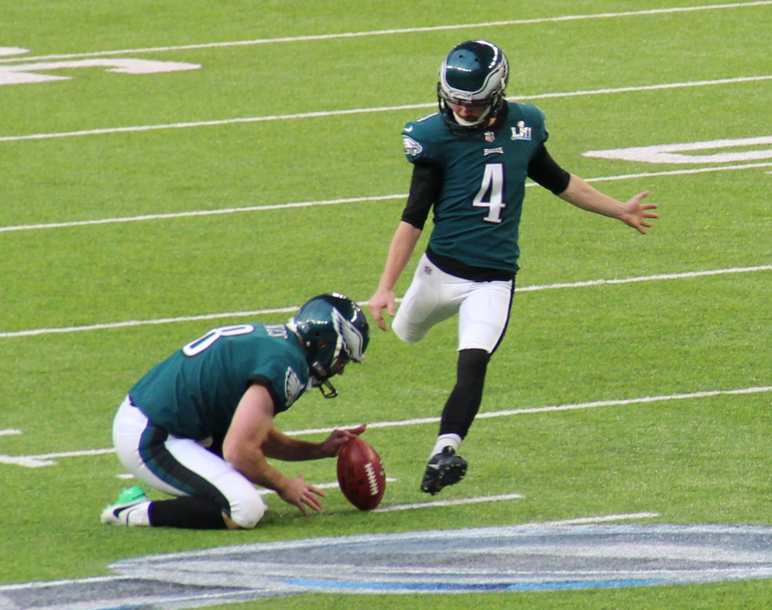 Practicing field goals before Super Bowl LII.